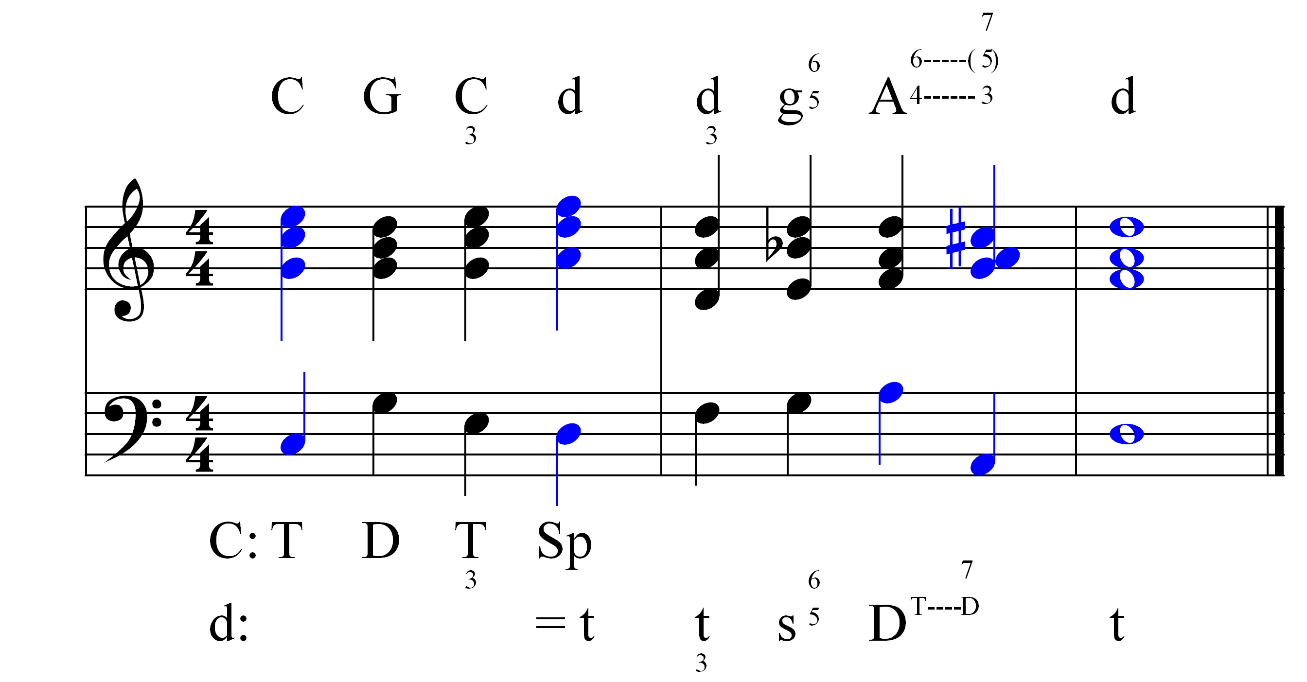 musical modulation, example revised